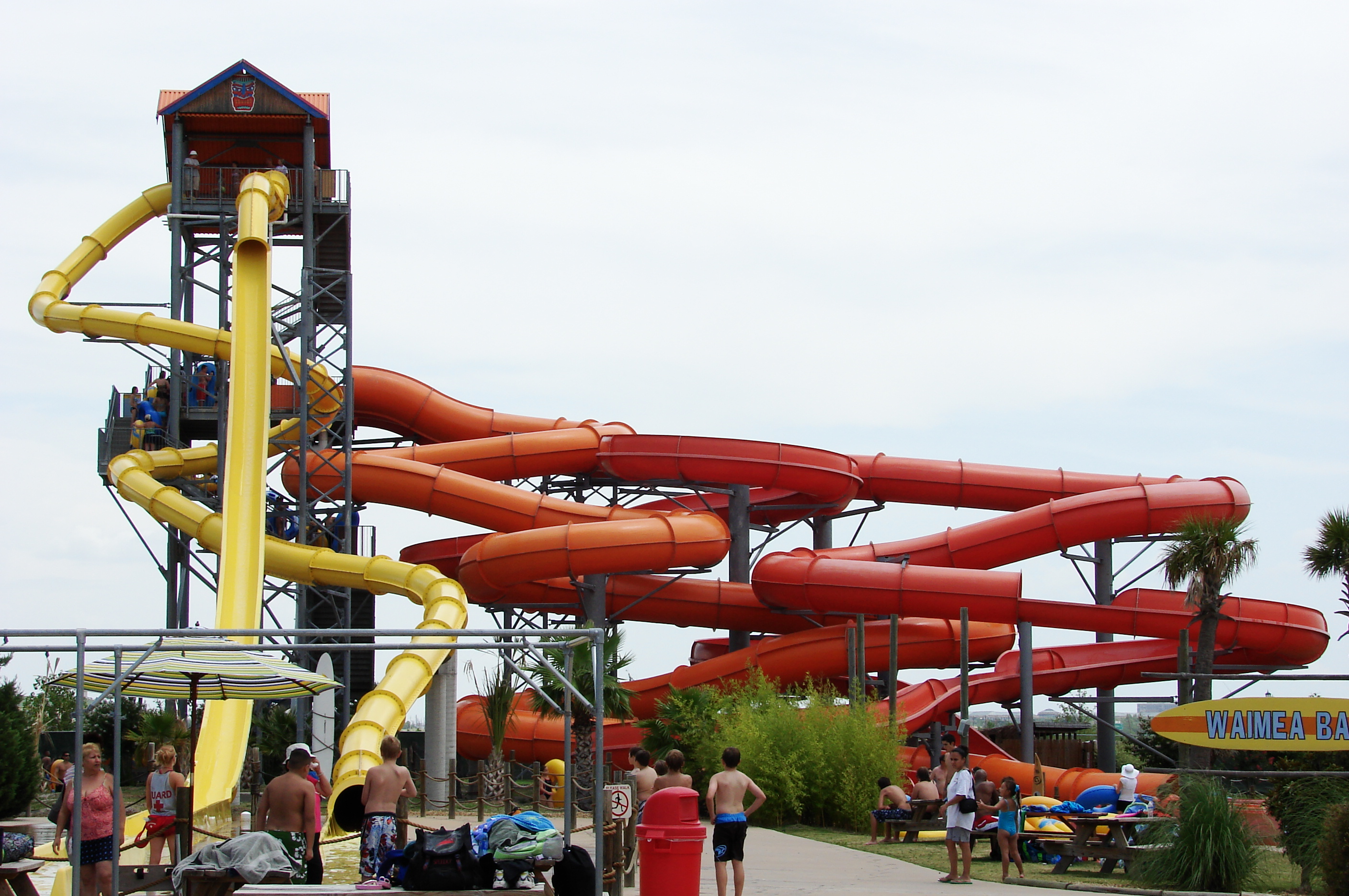 Water tube slide rides at Hawaiian Falls waterpark in The Colony, Texas.